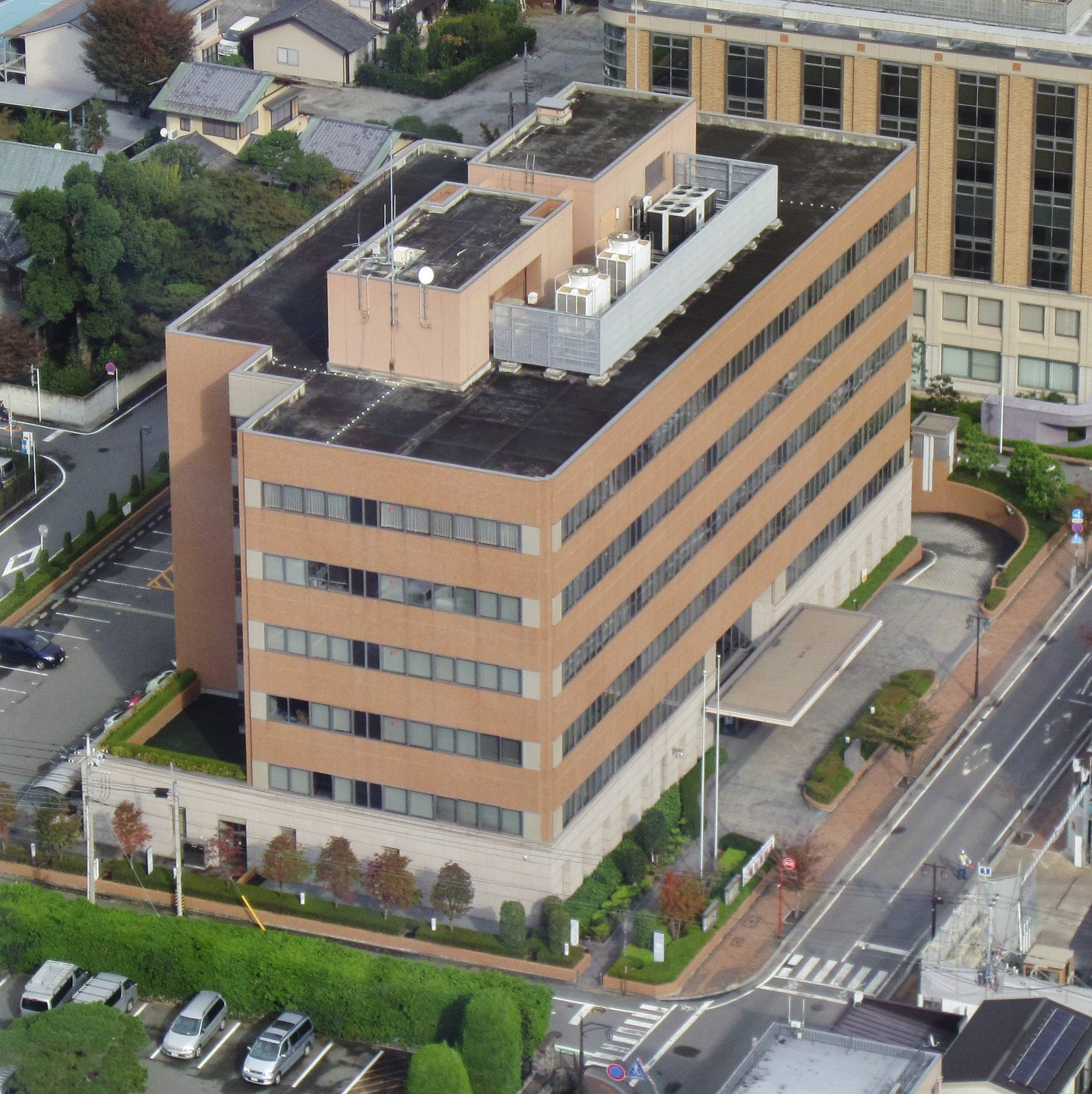 Maebashi District Prosecutors Office, View from Gunma Prefectural Government Building (Maebashi, Gunma).